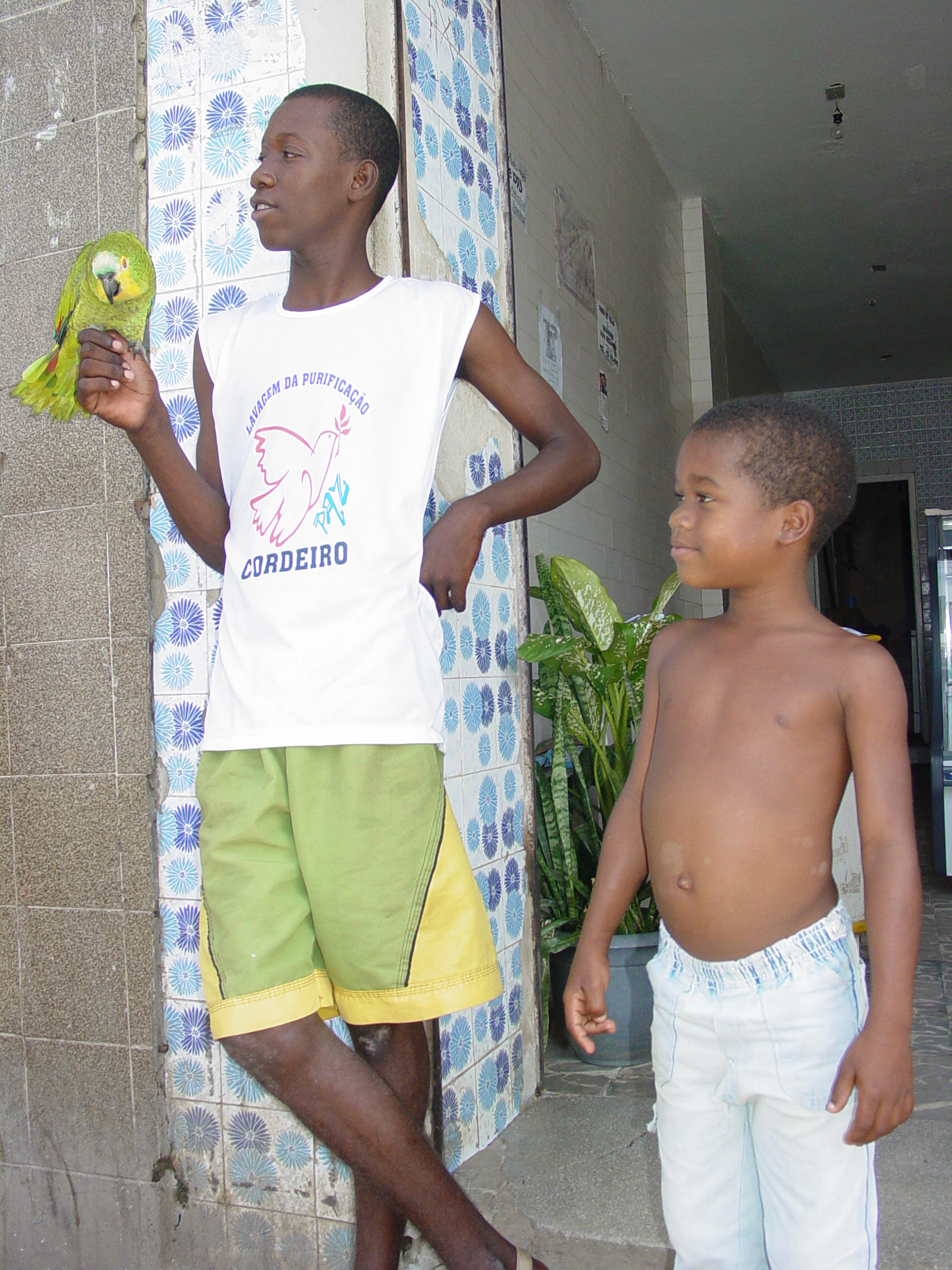 Boys with Blue-fronted Amazon Amazona aestiva parrot in Santo Amaro, near Salvador, Bahia, Brazil. July 2006.